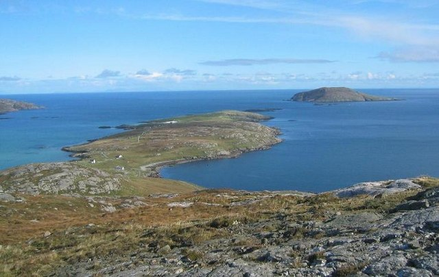 Vatersay This pic admittedly not taken in the square but maybe this will serve until someone gets down there! The island back right is Muldoanich and a bit of Barra is visible back left.